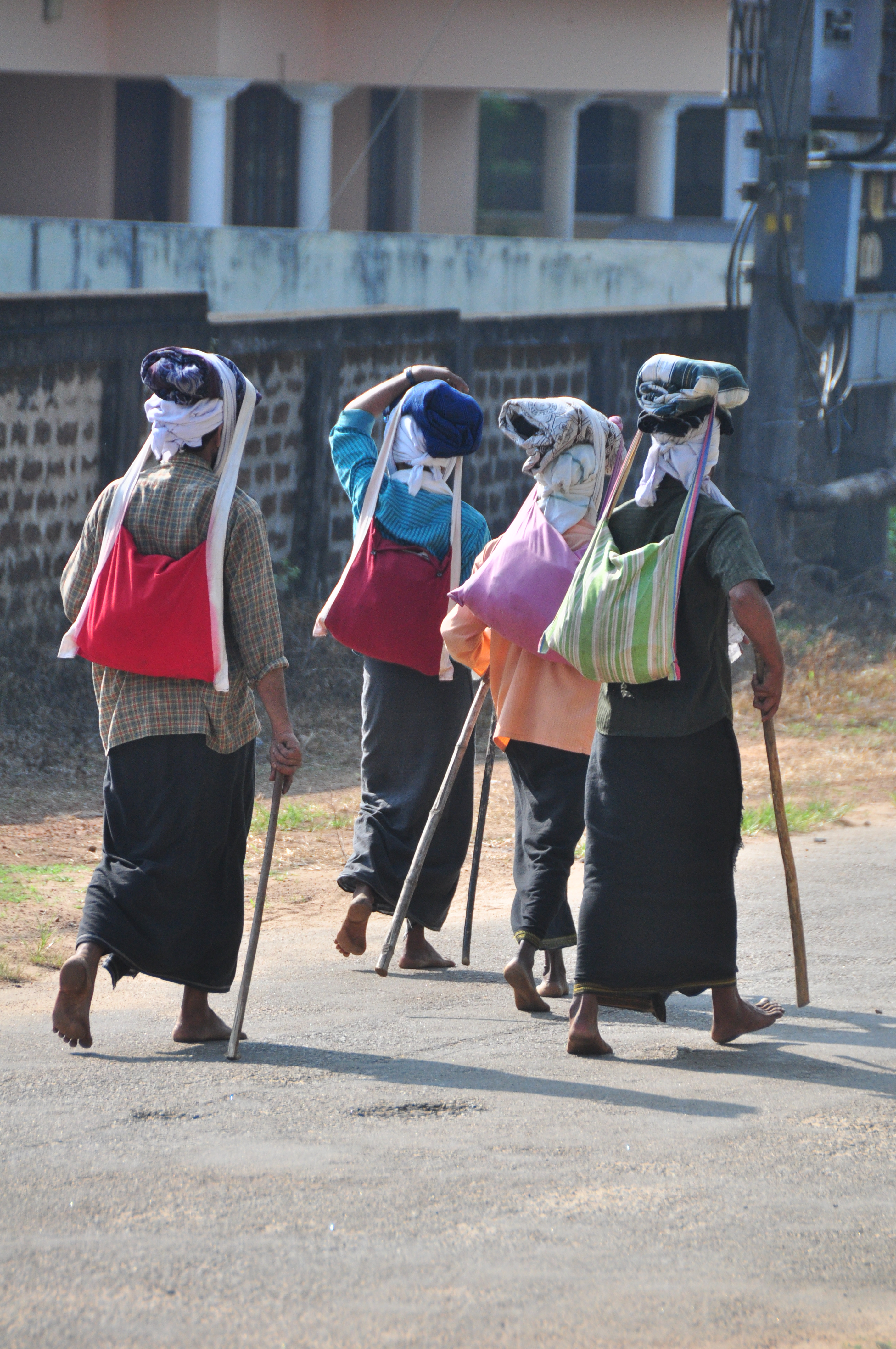 Sabarimala Pilgrims on foot